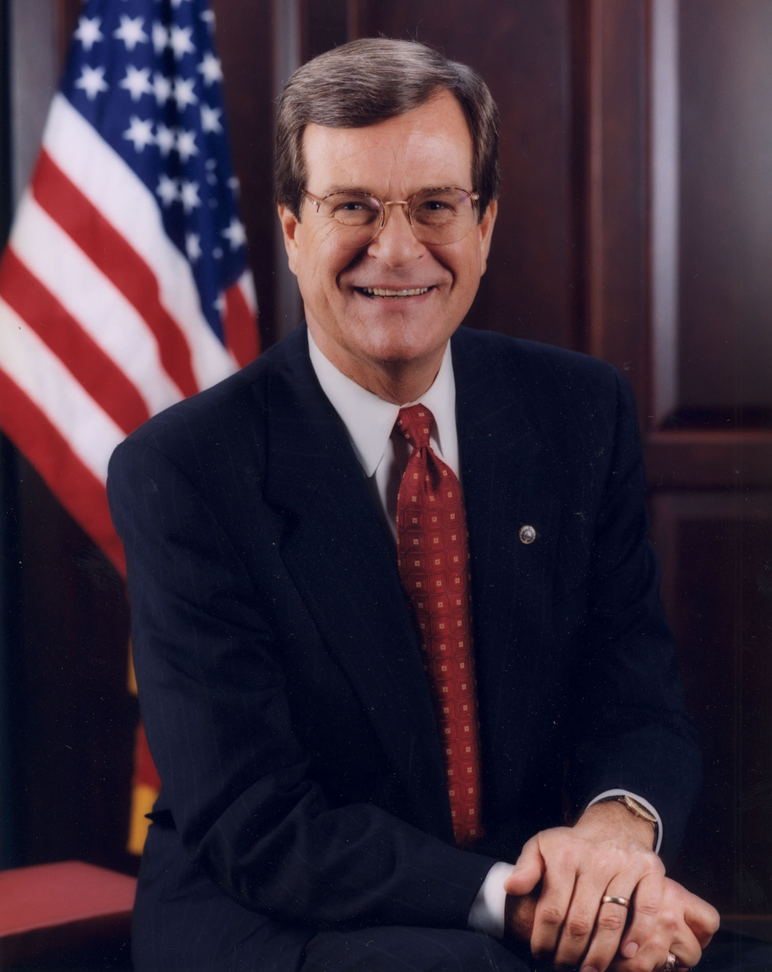 Trent Lott, Senator from Mississippi.